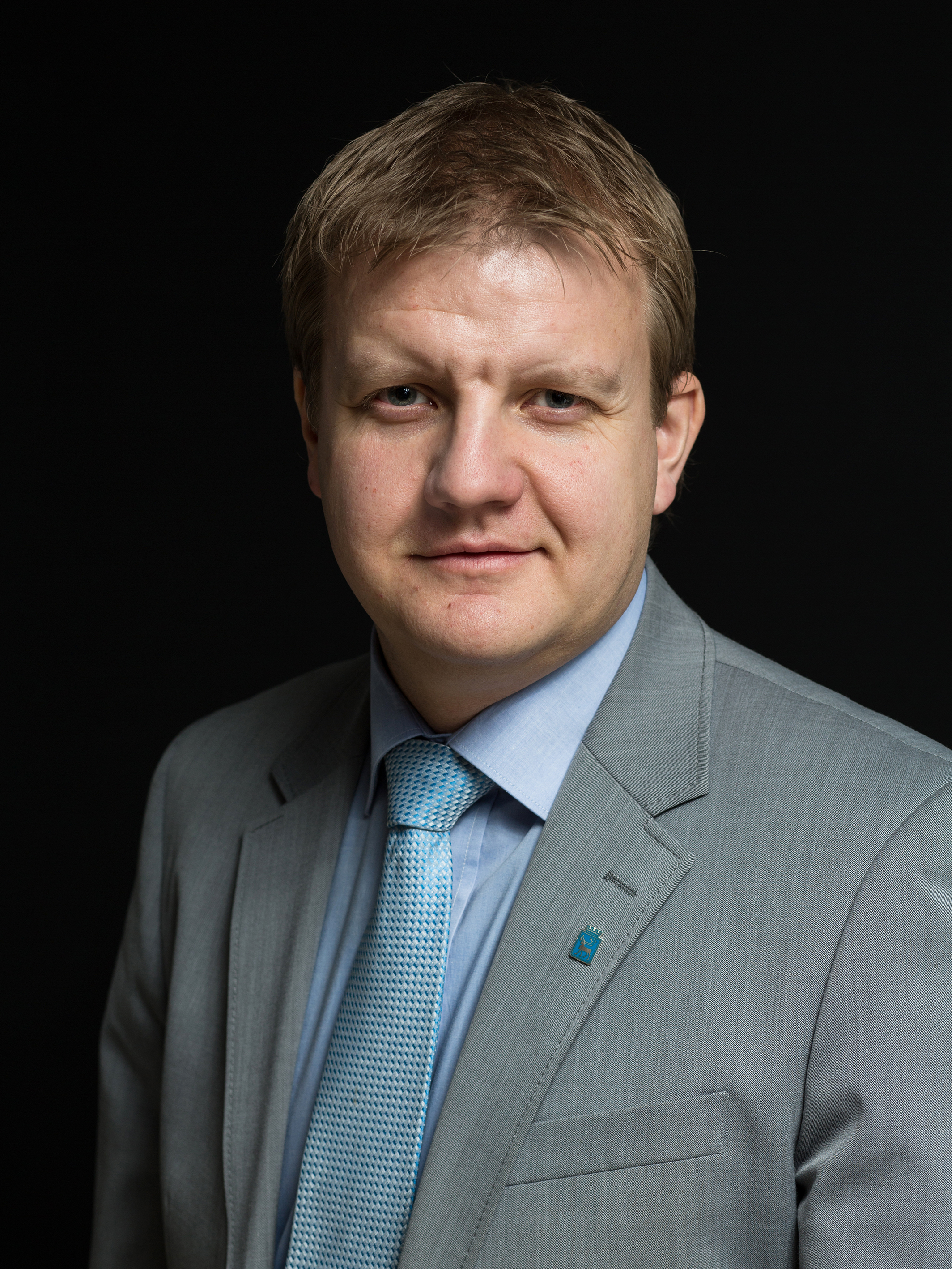 Byrådsleder Øyvind Hilmarsen, Head of City Council Bildet kan fritt lastes ned. Vennligst krediter fotograf. --- This image may be downloaded for commercial and non-commercial use. Please credit the photographer. Foto / Photo Credit: Mark Ledingham, Tromsø kommune.